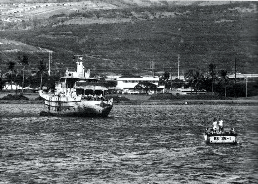 The former U.S. Navy net layer USS Buckeye (AN-13) aground at Pearl Harbor, Hawaii (USA), in 1979. A boat of the rescue and salvage ship USS Safeguard (ARS-25) is visible in the foreground. Buckeye was in service from 1942 to 1947. In 1976, she was towed to Pearl Harbor for use as a salvage training hulk.